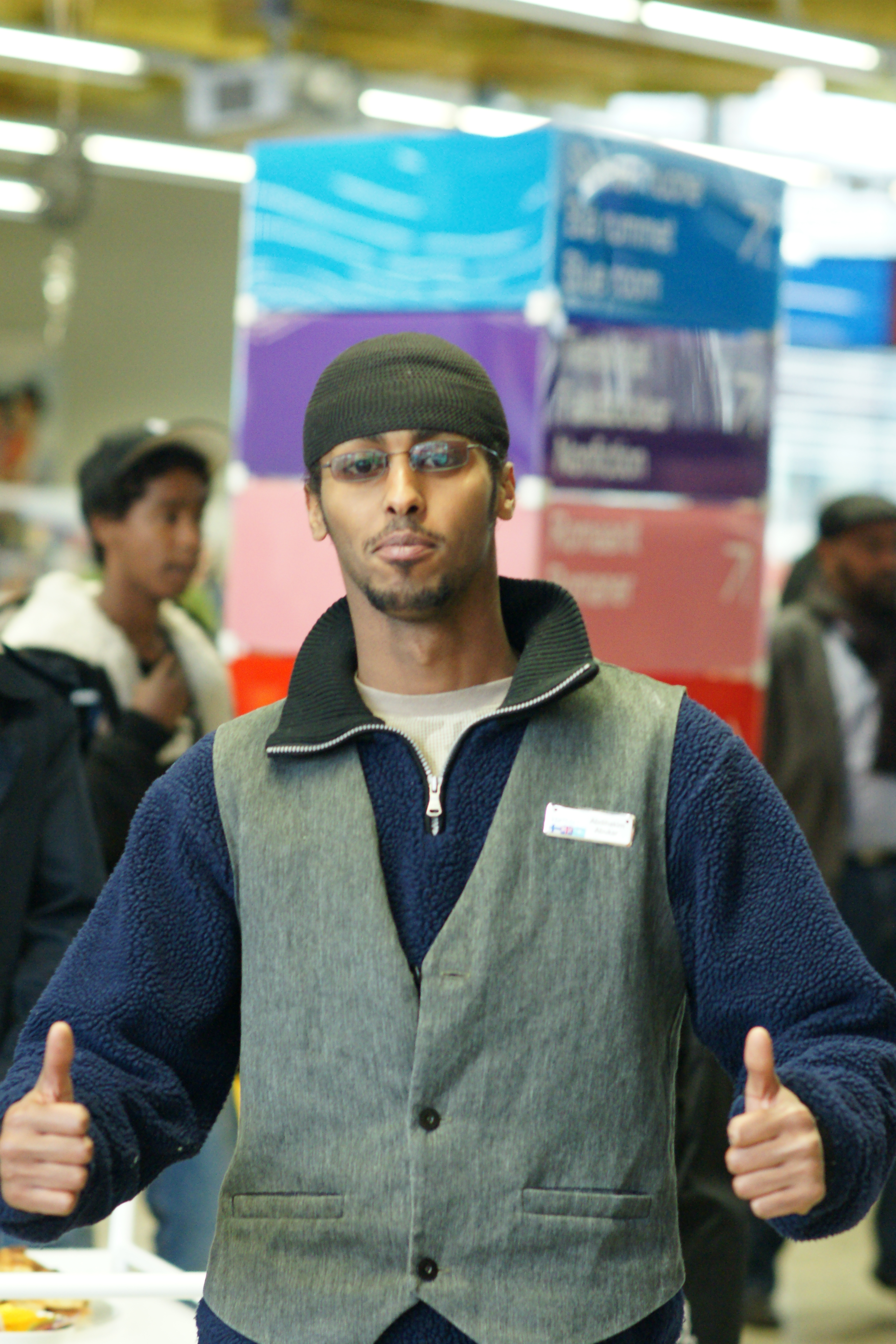 A young Somali man.